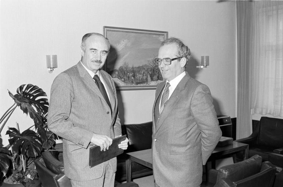 Herbert Braunsteiner, Herbert Keßler, 1980.